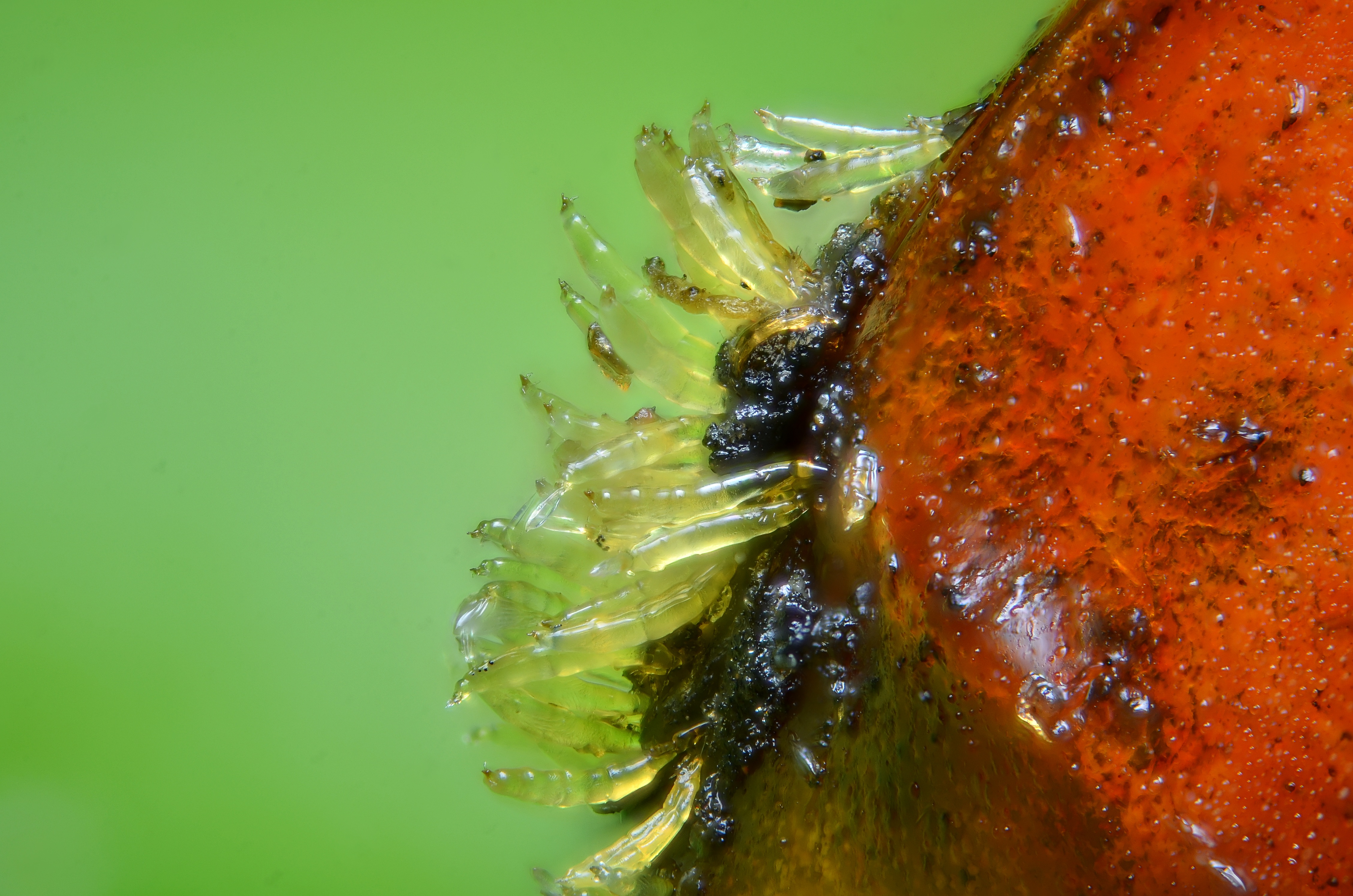 Harmonia axyridis attacked by Laboulbeniales parasitic fungi (Hesperomyces virescens ?) at the apex of its elytra Focus stack of 59 images. Nikon achromatic (10x 160/0.25) microscope objective on extention tubes